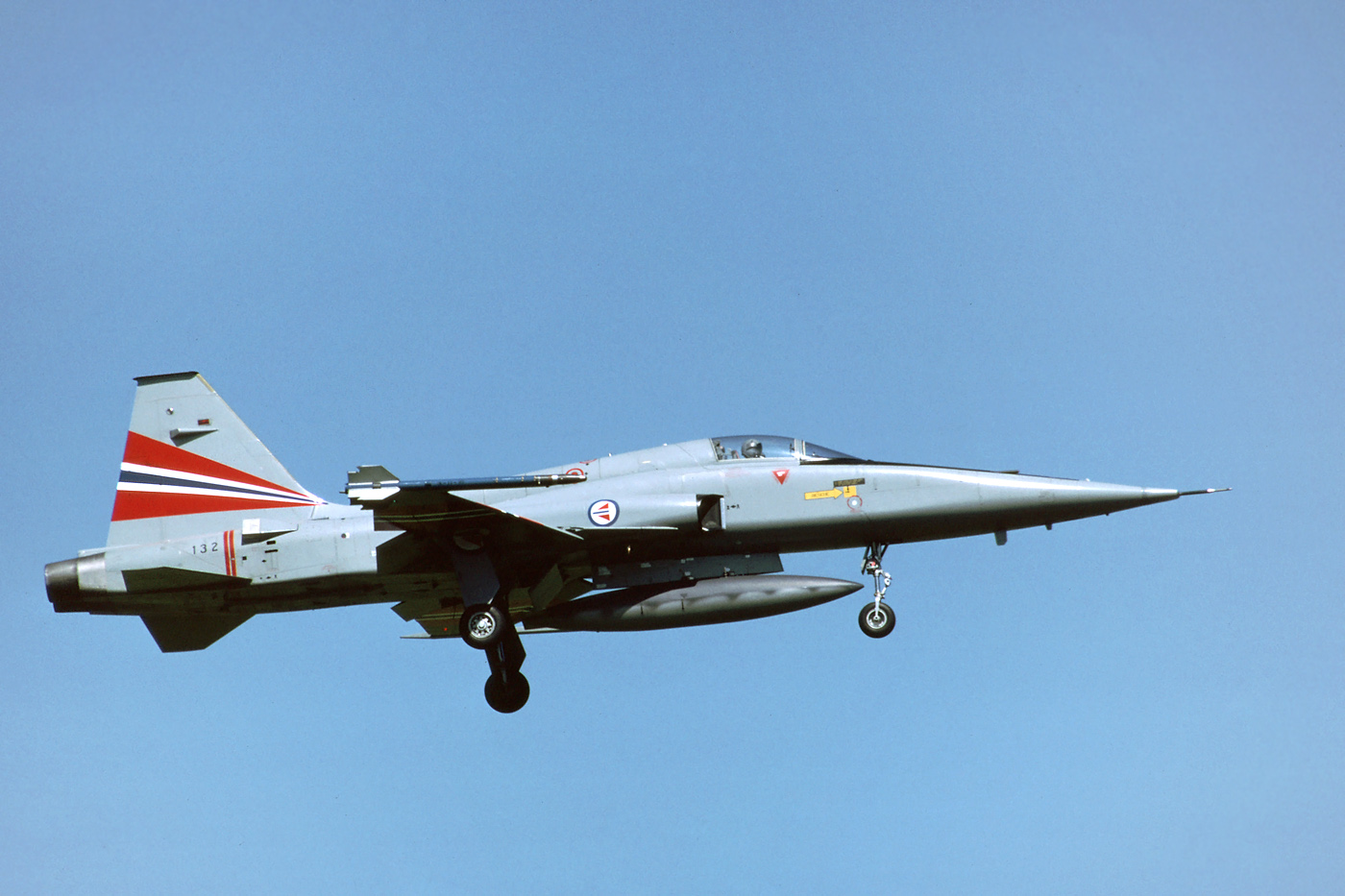 Arriving for the open day at Leeuwarden in July 1994.